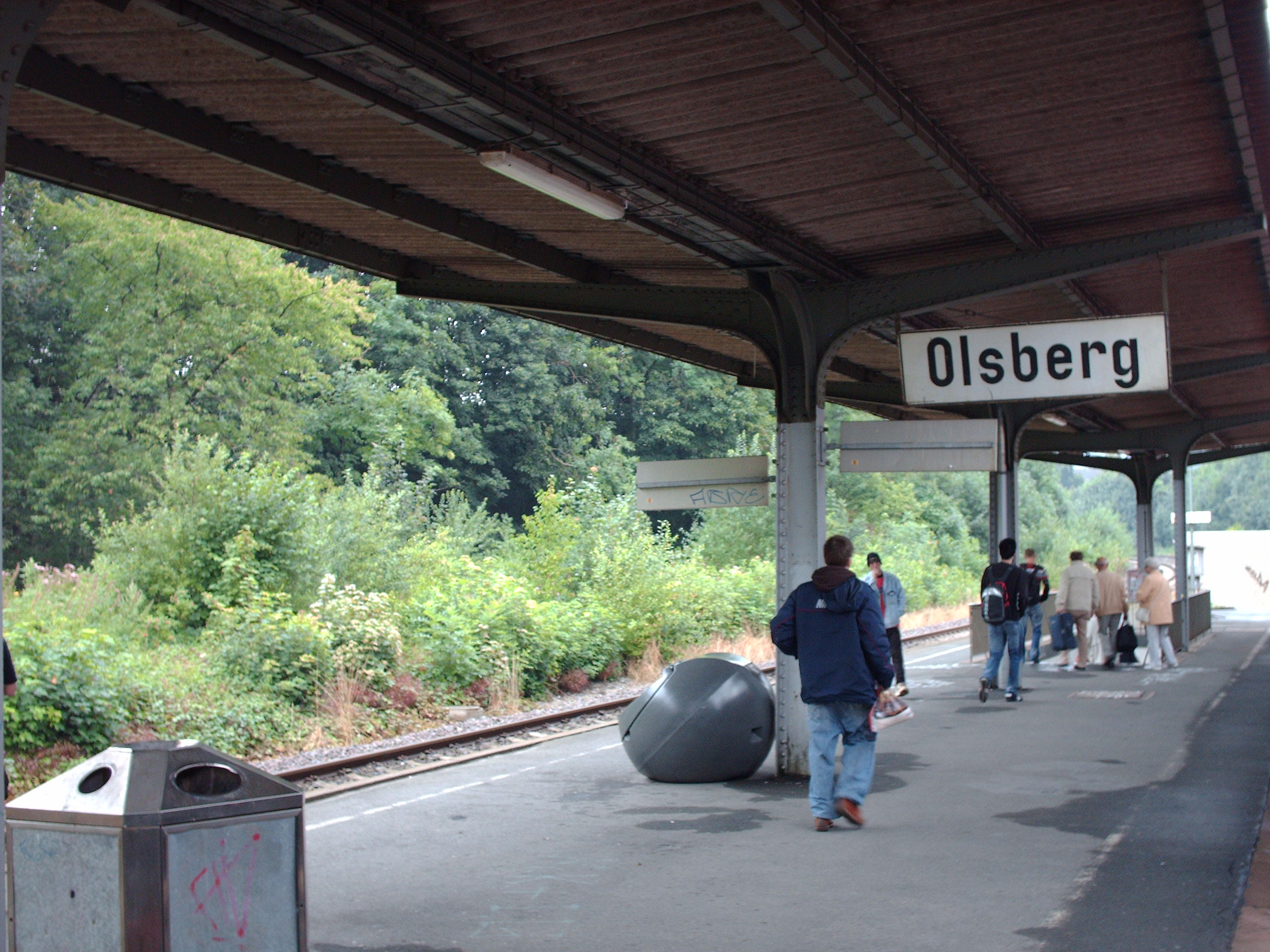 Olsberg station, Olsberg, Germany check usage